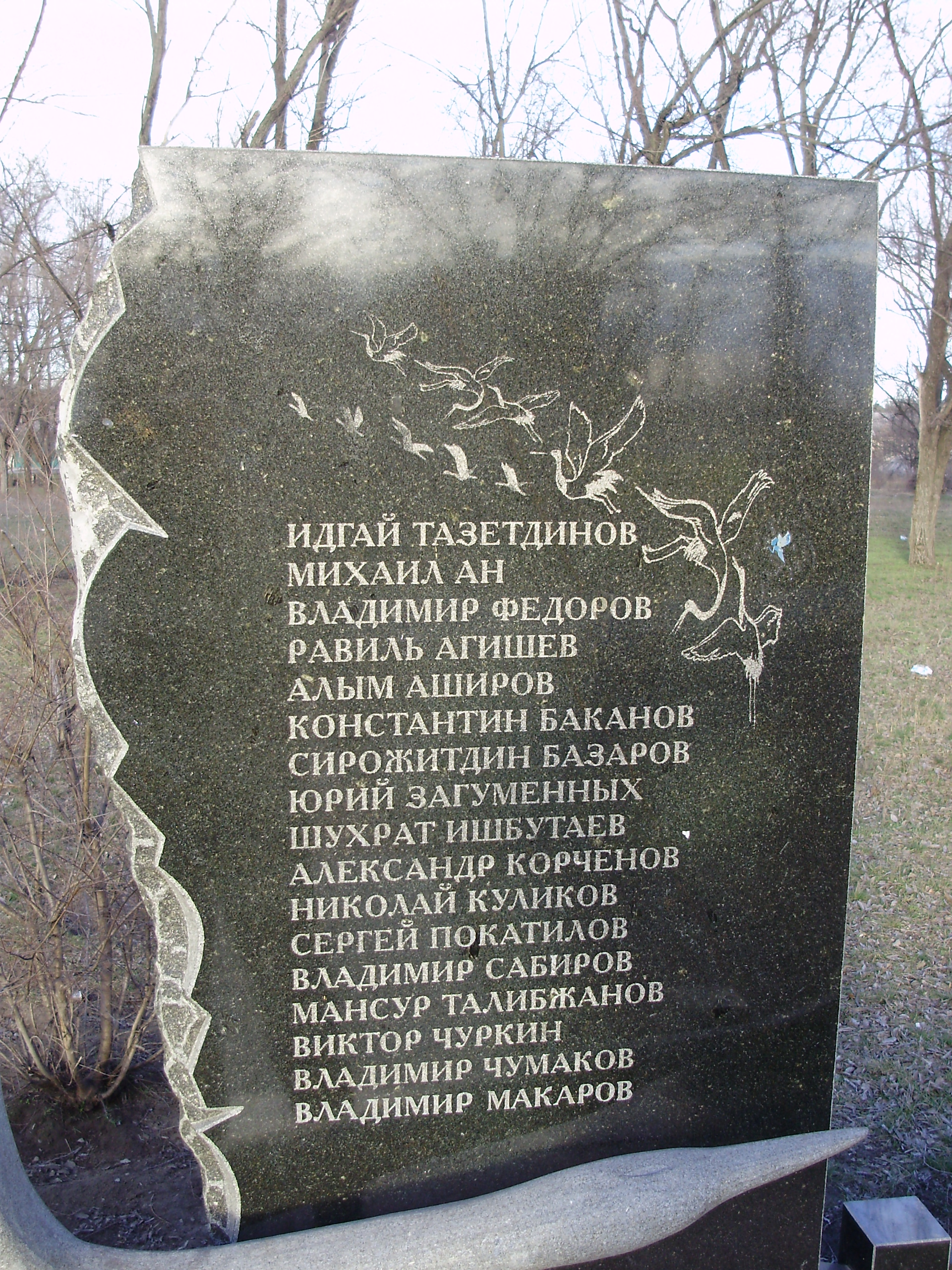 Detail of the monument to footbal team «Pakhtakor» perished in mid-air collision on 11 August 1979. Urban-type settlement Kurilovka, Petrykivka Raion, Dnipropetrovsk Oblast.